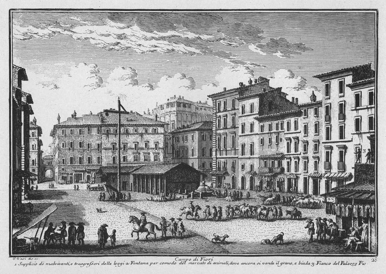 Campo de' Fiori in the 1740s, etching by Giuseppe Vasi, from Guiseppe Vasi, Delle magnificenze di Roma antica e moderna, Book II - Le Piazze principali con obelischi, colonne ed altri ornamenti (i.e. “The main squares with obelisks, columns and other embellishments”), 1752, plate No. 28.